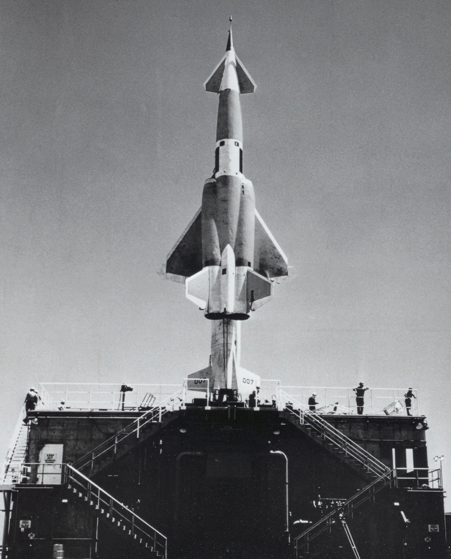 U.S. Air Force cruise missile Navaho on the launch pad. Even though it never reached operational status before cancellation in 1957, Navaho research development contributed to the aeronautical research program. The heavy Navaho vehicle weighed 136,000 kilograms, capable of Mach-3 speeds, and used an improved V-2 engine, was boosted into the air by three liquid-propellant rocket engines of 135,000 pounds of thrust each. Variants of these engines were developed for Army's Redstone and Jupiter rockets.